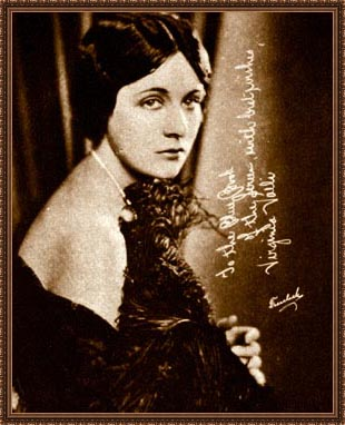 Publicity photo of Virginia Valli from The Blue Book of the Screen by Ruth Wing, editor